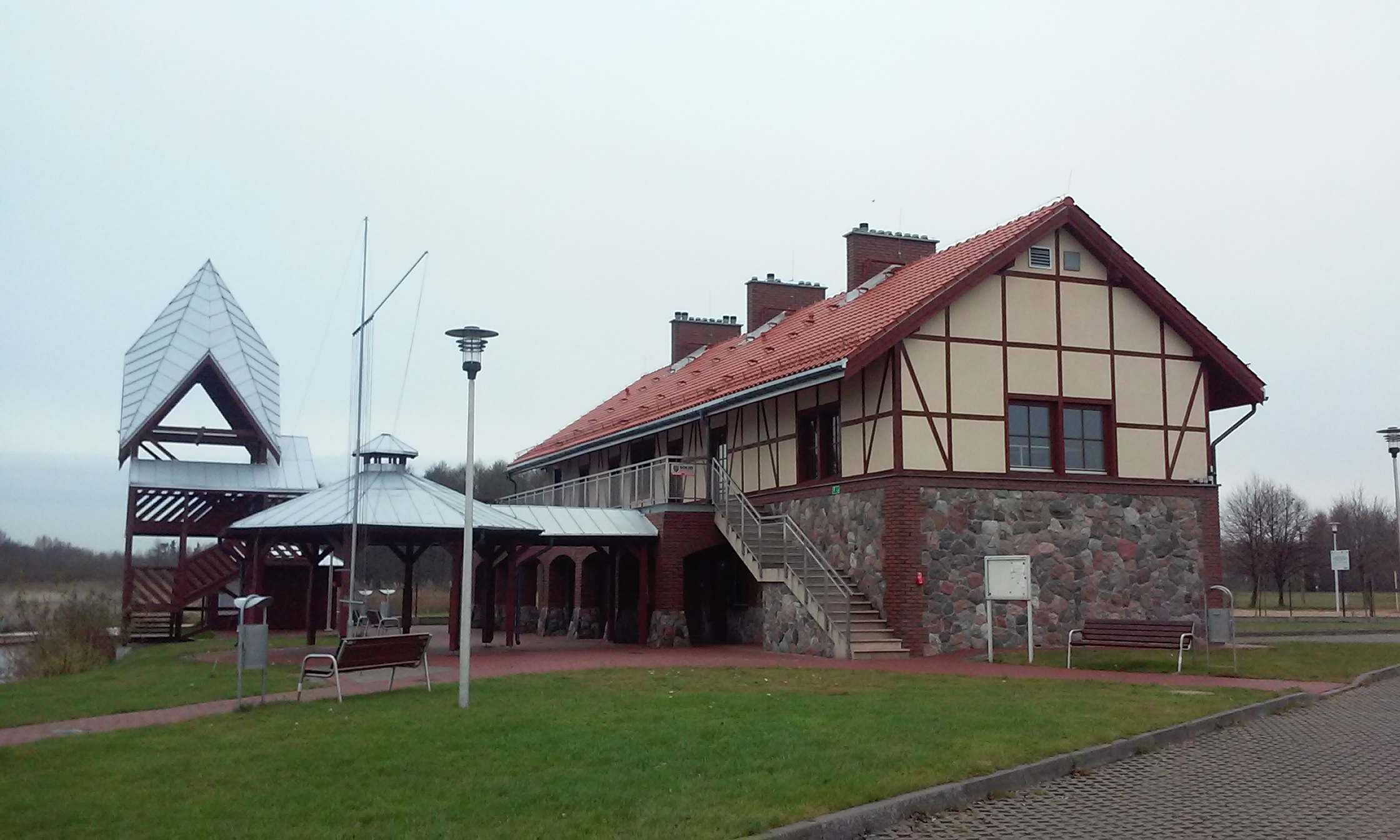 Zalewo, Warmian-Masurian Voivodeship, Poland